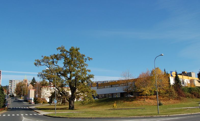 Oak in Mšeno nad Nisou, part of Jablonec nad Nisou town, Czech Republic.